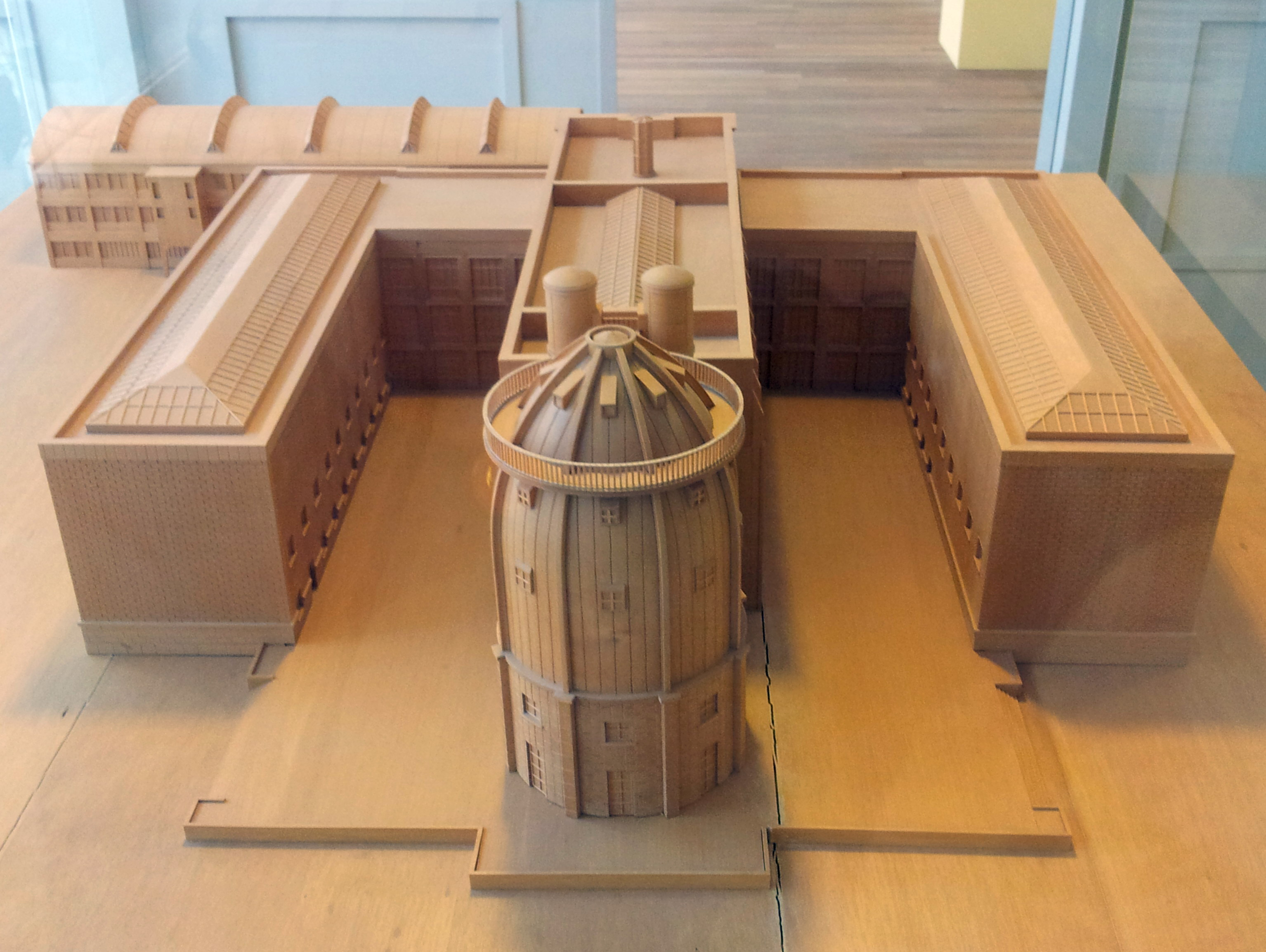 Maastricht, the Netherlands. Model by the architect Aldo Rossi of the Bonnefantenmuseum in Maastricht. View from the West with the rocket shaped tower in front.